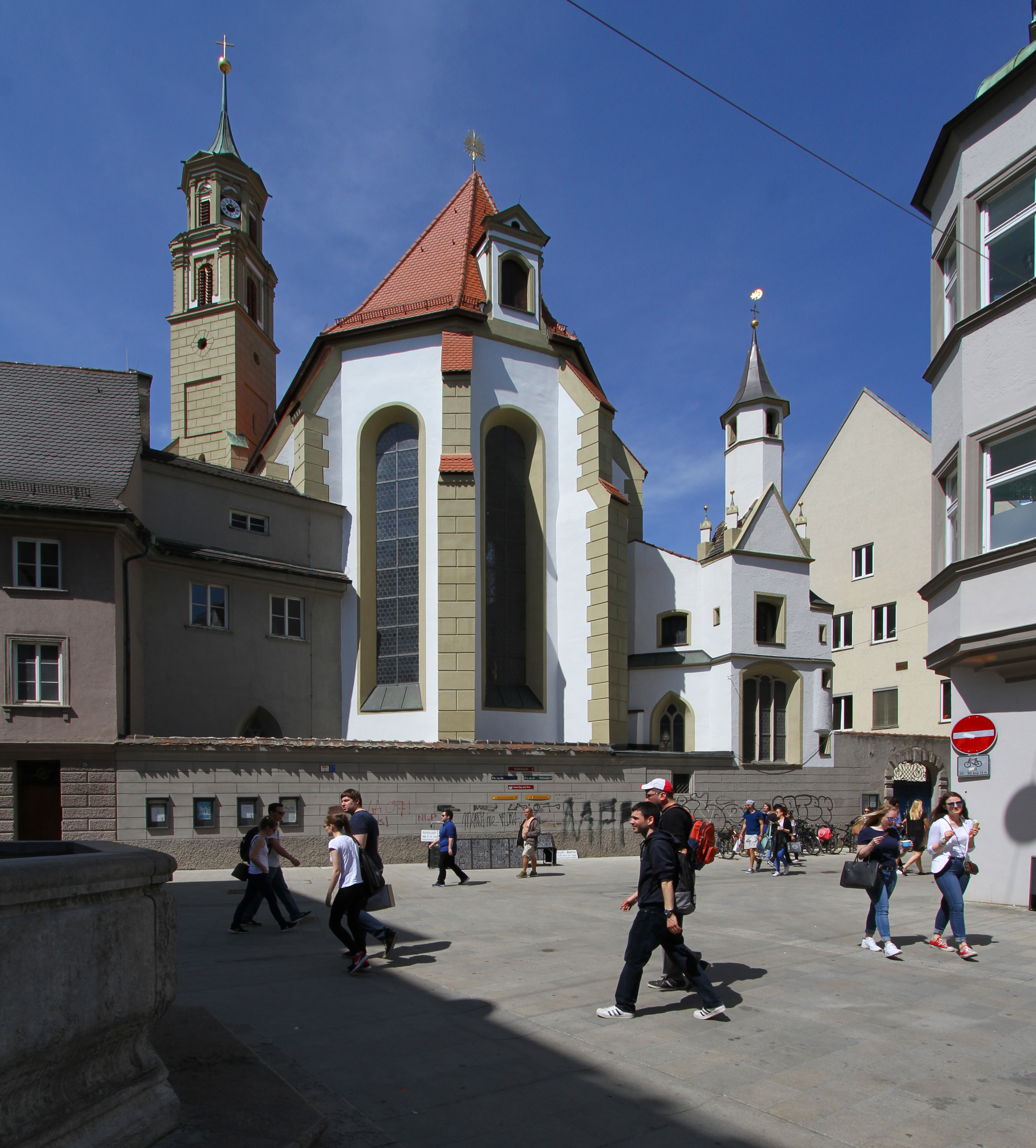 Church of St. Anna in Augsburg